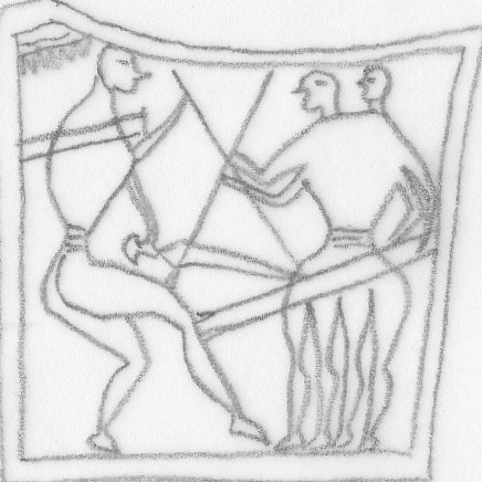 bronze plate fibula of the idaen cave of Zeus on Crete with fight between warrior and double figure Athens, National Museum 11765 boiotic, subgeometric schematic drawing